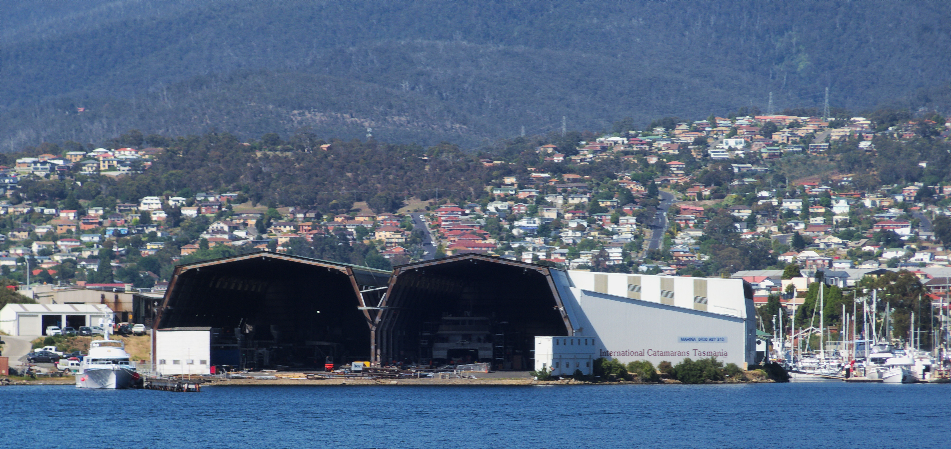 Incat shipyard, Hobart.